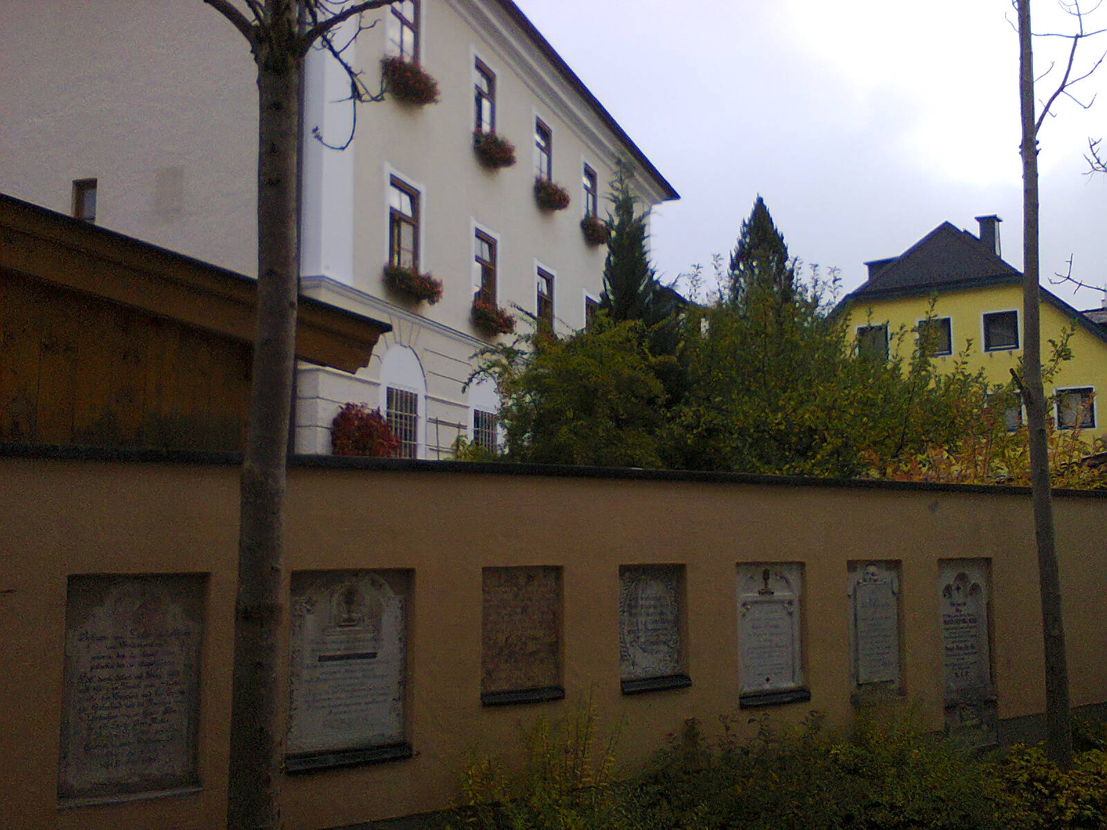 Catholic parsonage Saalfelden